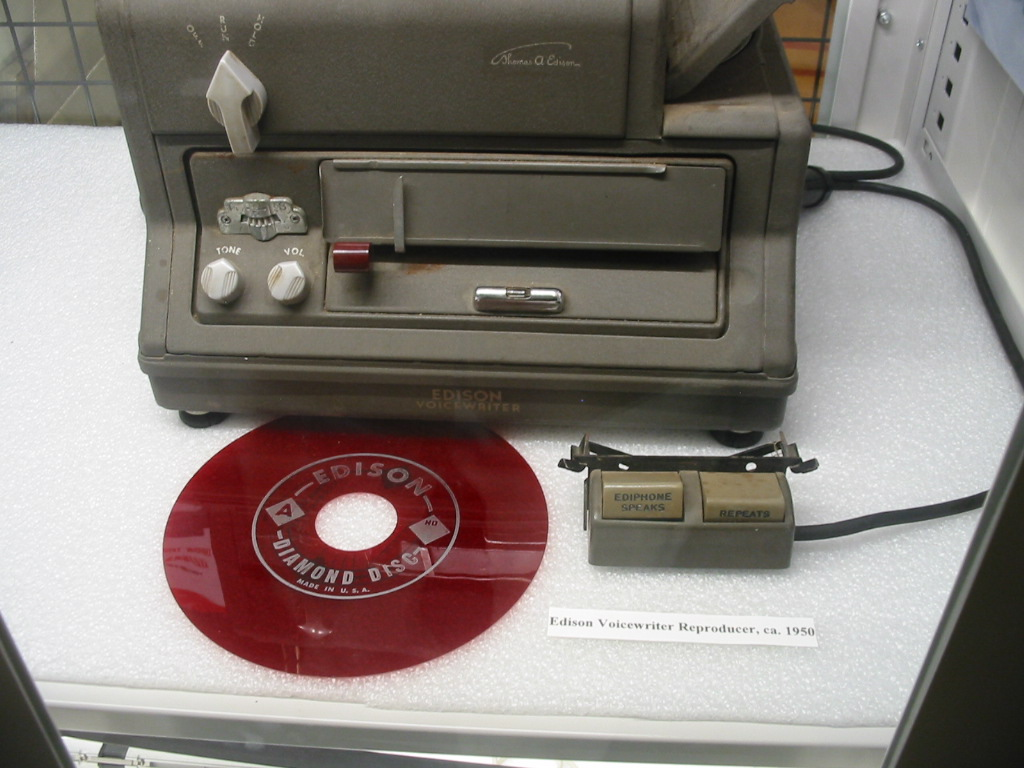 Thomas Edison National Historical Park. Edison Voicewriter Reproducer ca. 1950.